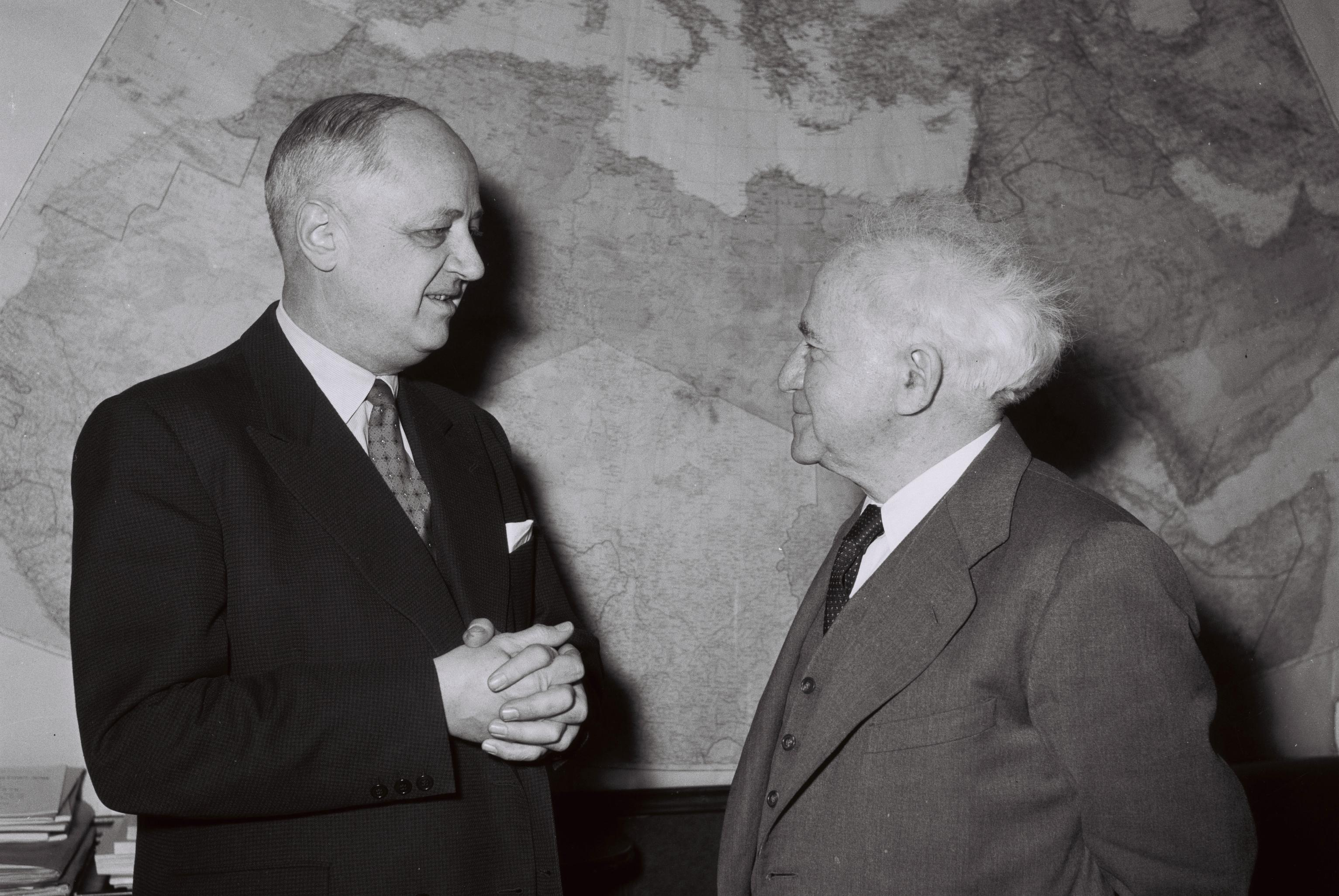 Christian Pineau, former Foreign Minister of France, on a visit to David Ben Gurion in Israel, January 1959